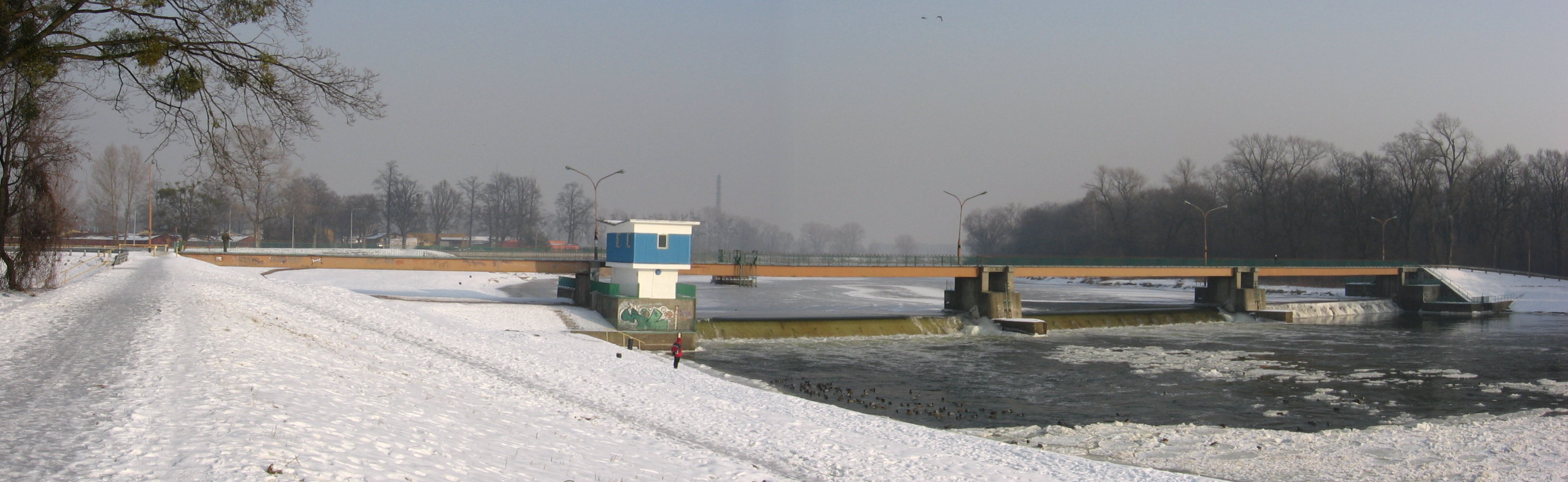 Wrocław, Poland. Opatowicki weir and pedestrian bridge. View from north-west riverside of Odra, direction Opatowicka Island